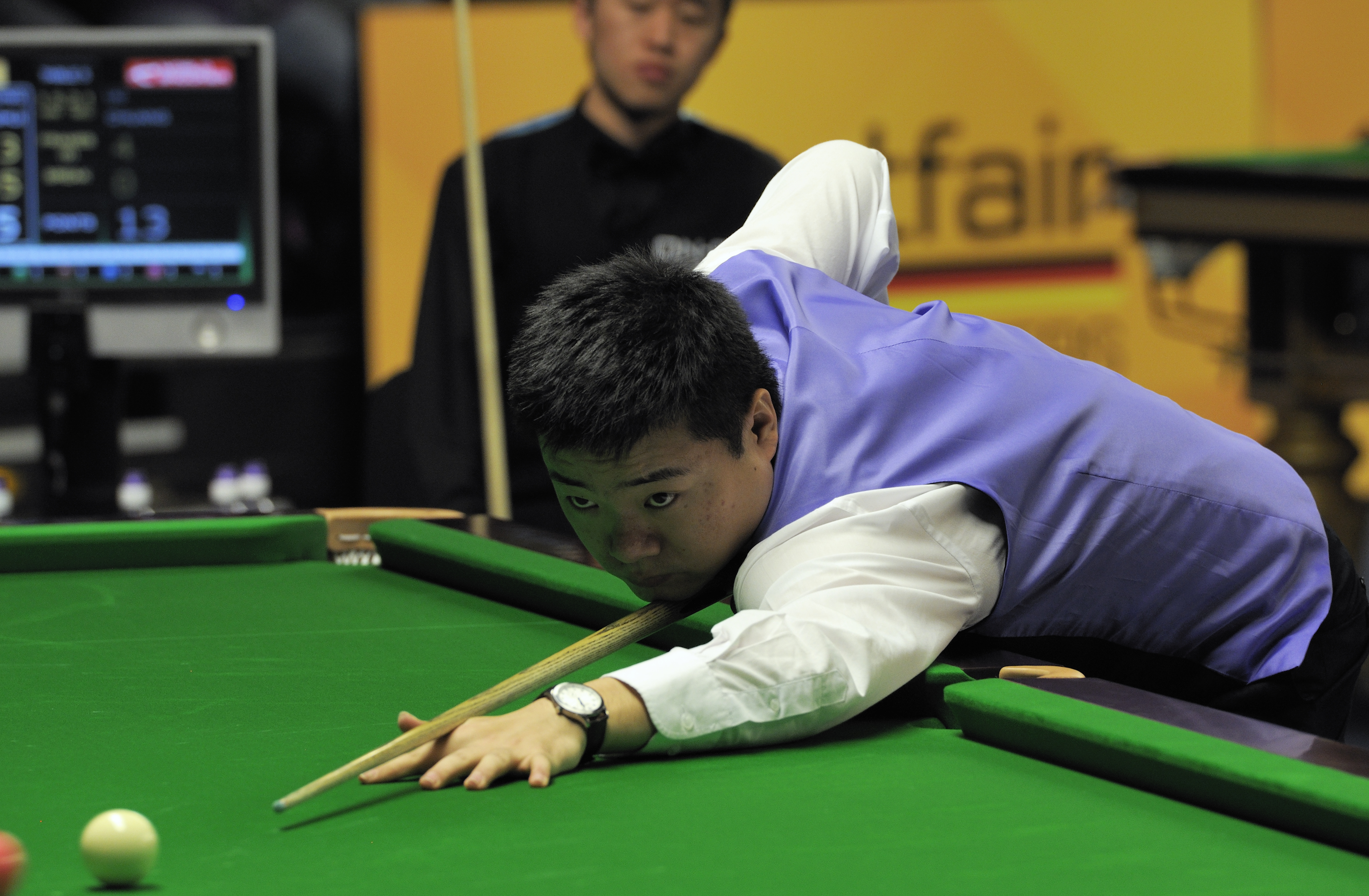 Picture taken in Berlin during the Snooker German Masters in 2013. Ding Junhui.